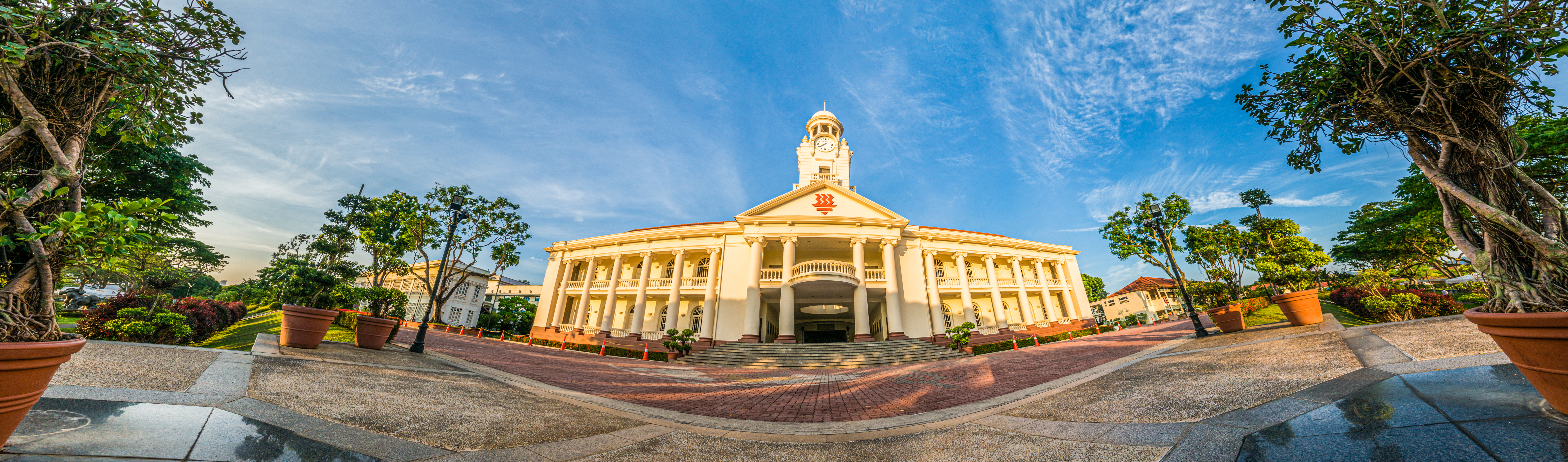 A panorama of the Chinese High School Clock Tower Building.